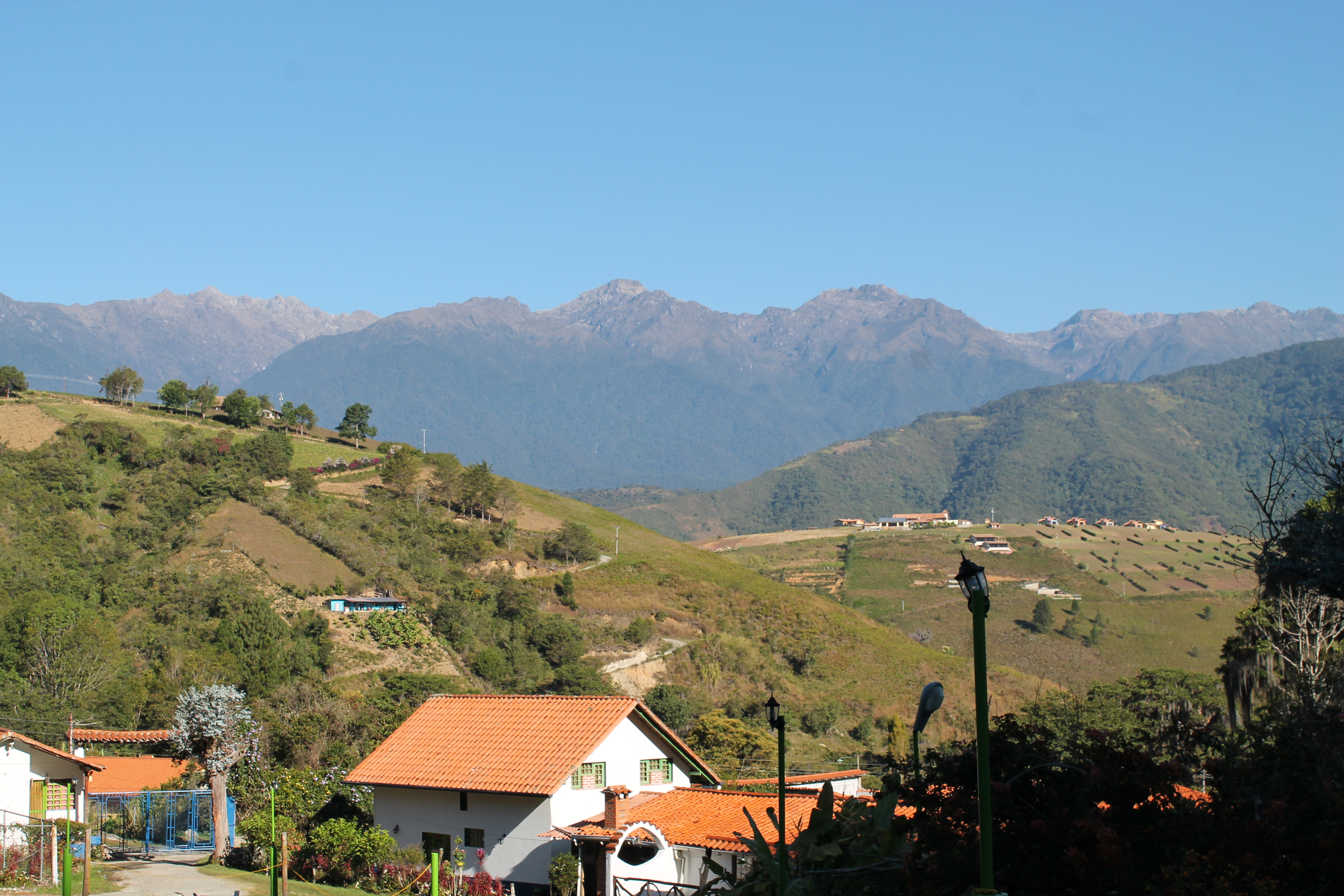 Sierra Nevada de Mérida (cordillera de los Andes) Tabay estado Merida Venezuela